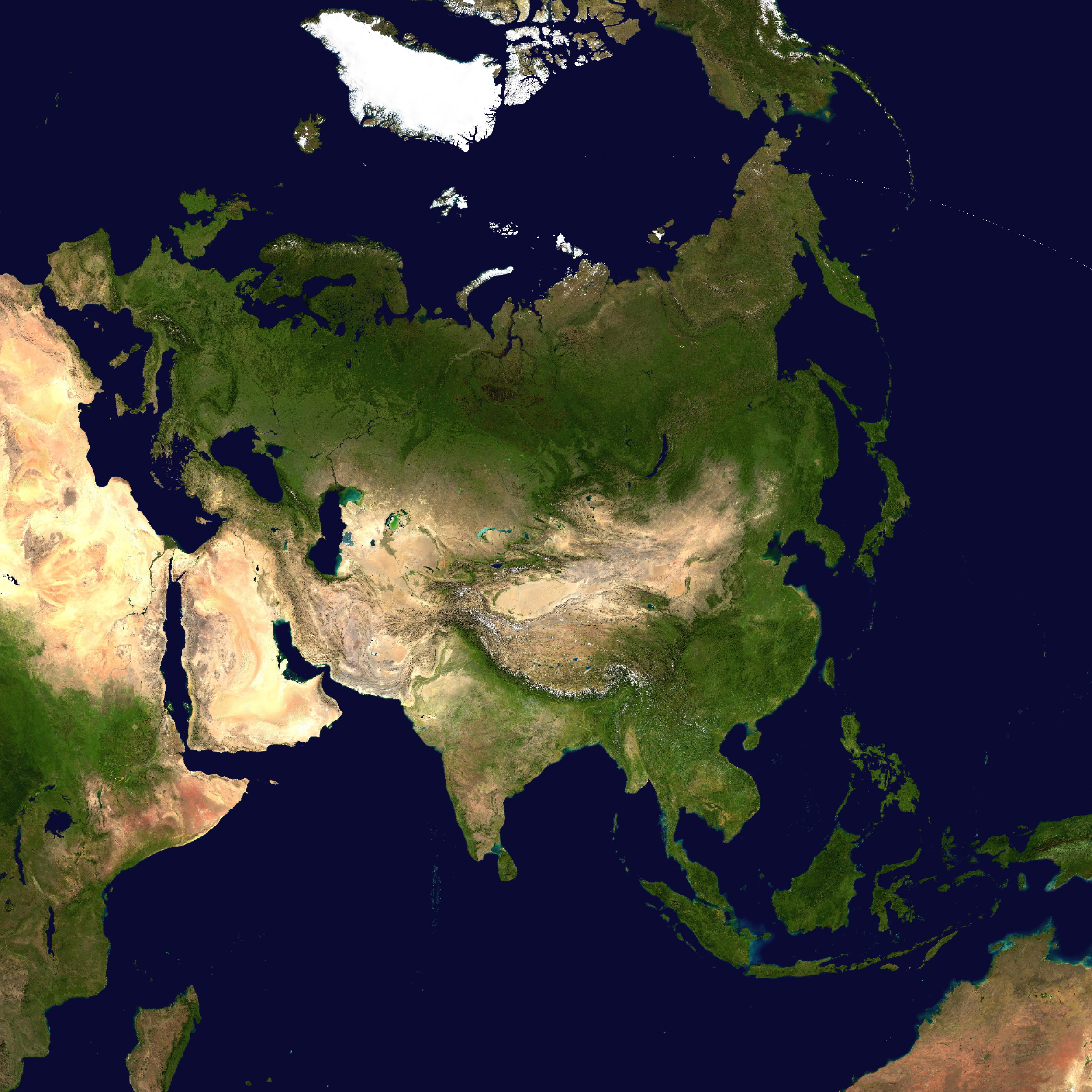 Physical location map of Eurasia